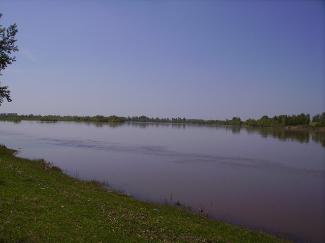 Chulym river near Achinsk city (Russia)